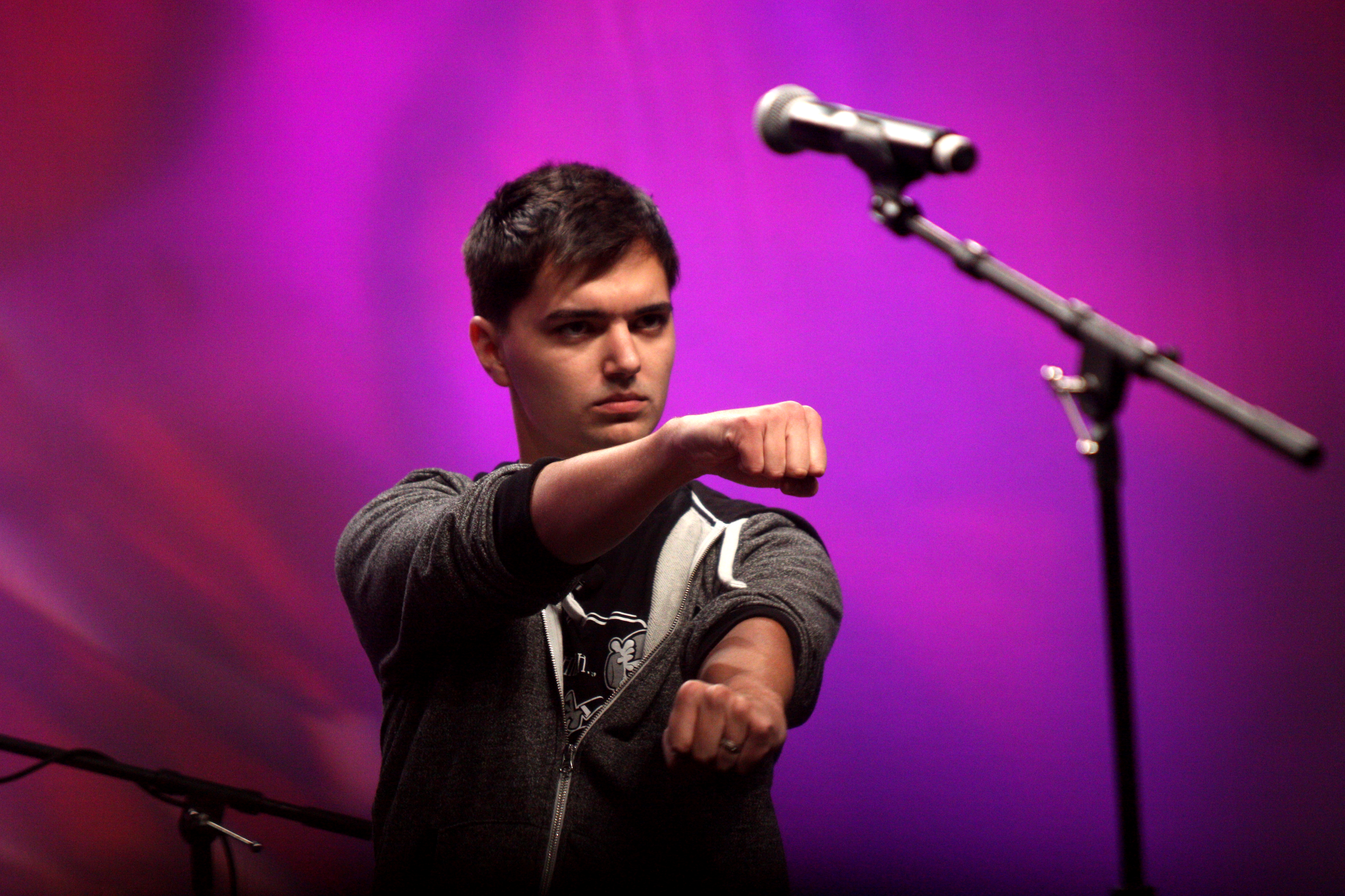 Elliott Morgan speaking at VidCon 2012 at the Anaheim Convention Center in Anaheim, California.